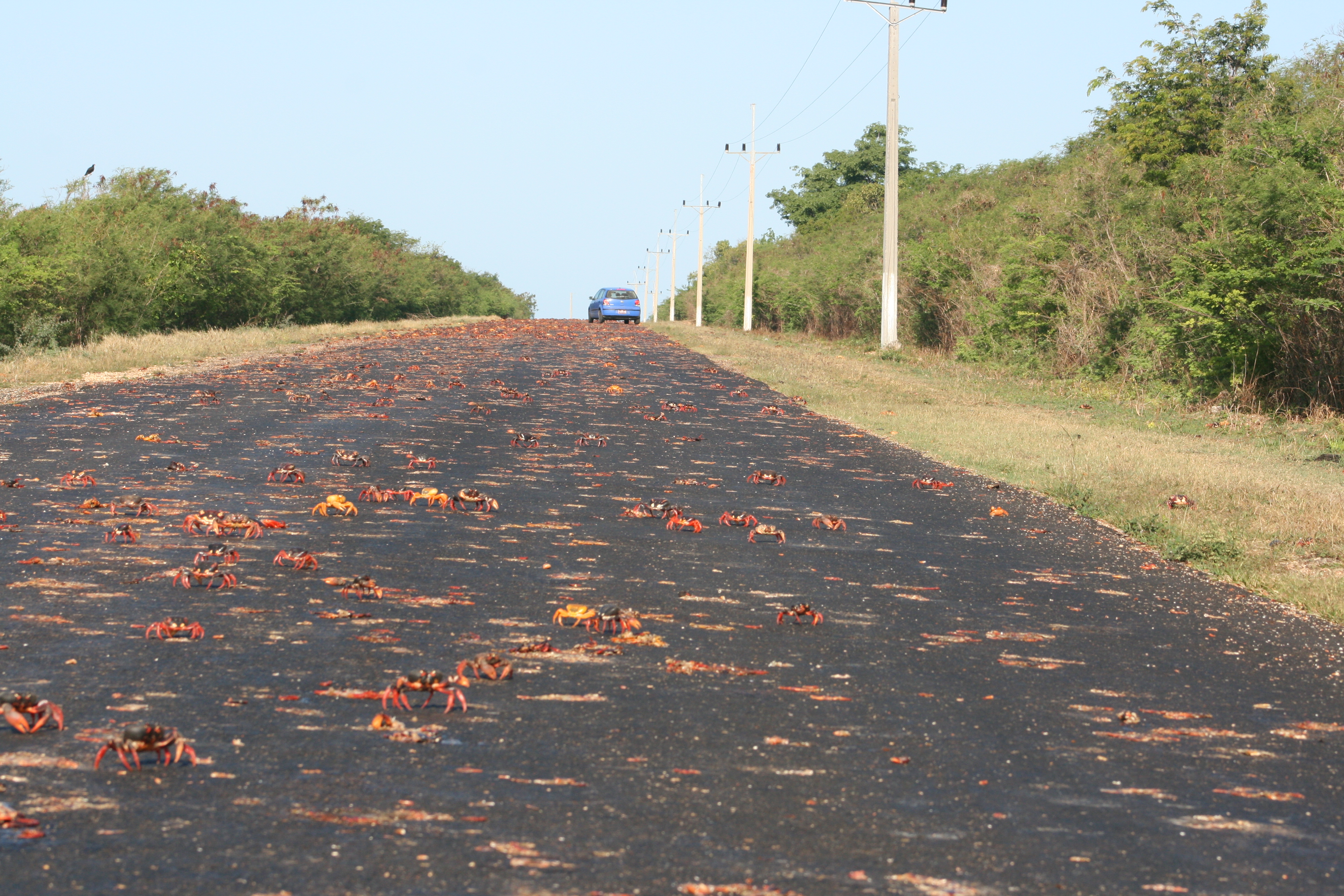 Crabs in a road near Trinidad, Cuba.